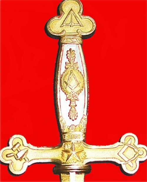 Guard Lafayette Masonic sword. The original object is in the French museum of Free Masonry, Paris and dates from around 1820. A record museum and a photograph of the original object are available on the website of the museum: sword wavy blade called flaming sword with Masonic symbols on the hilt and scabbard.